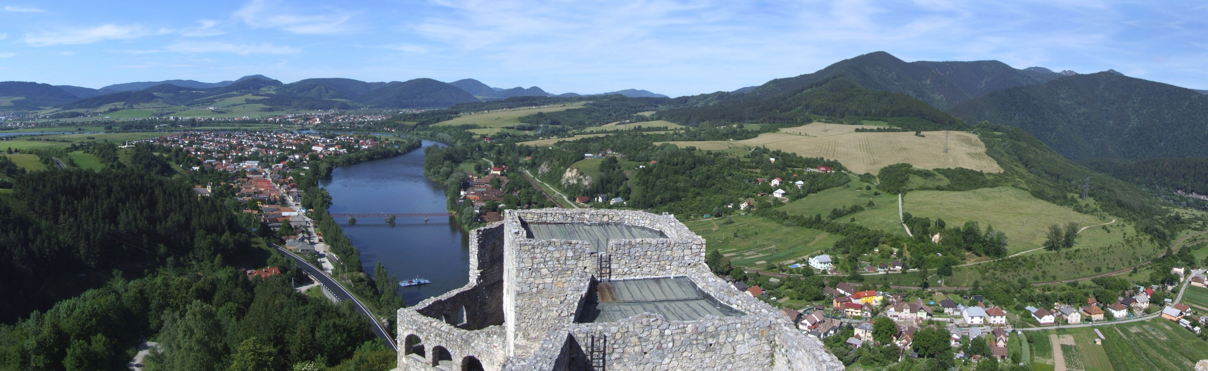 Strečno, Slovakia - view from castle